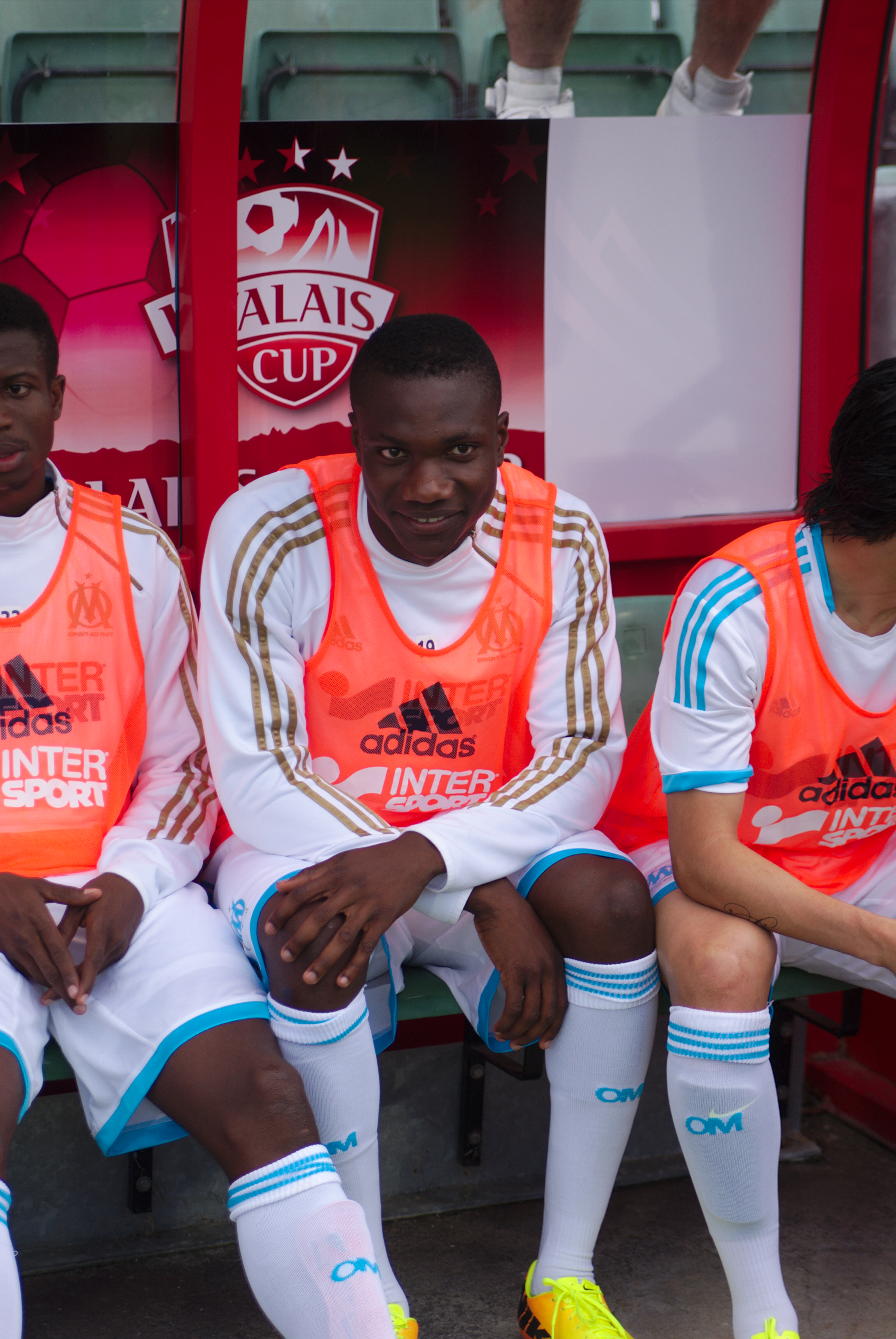 Valais Cup 2013 - OM-FC Porto - 20130713 - Achille Anani